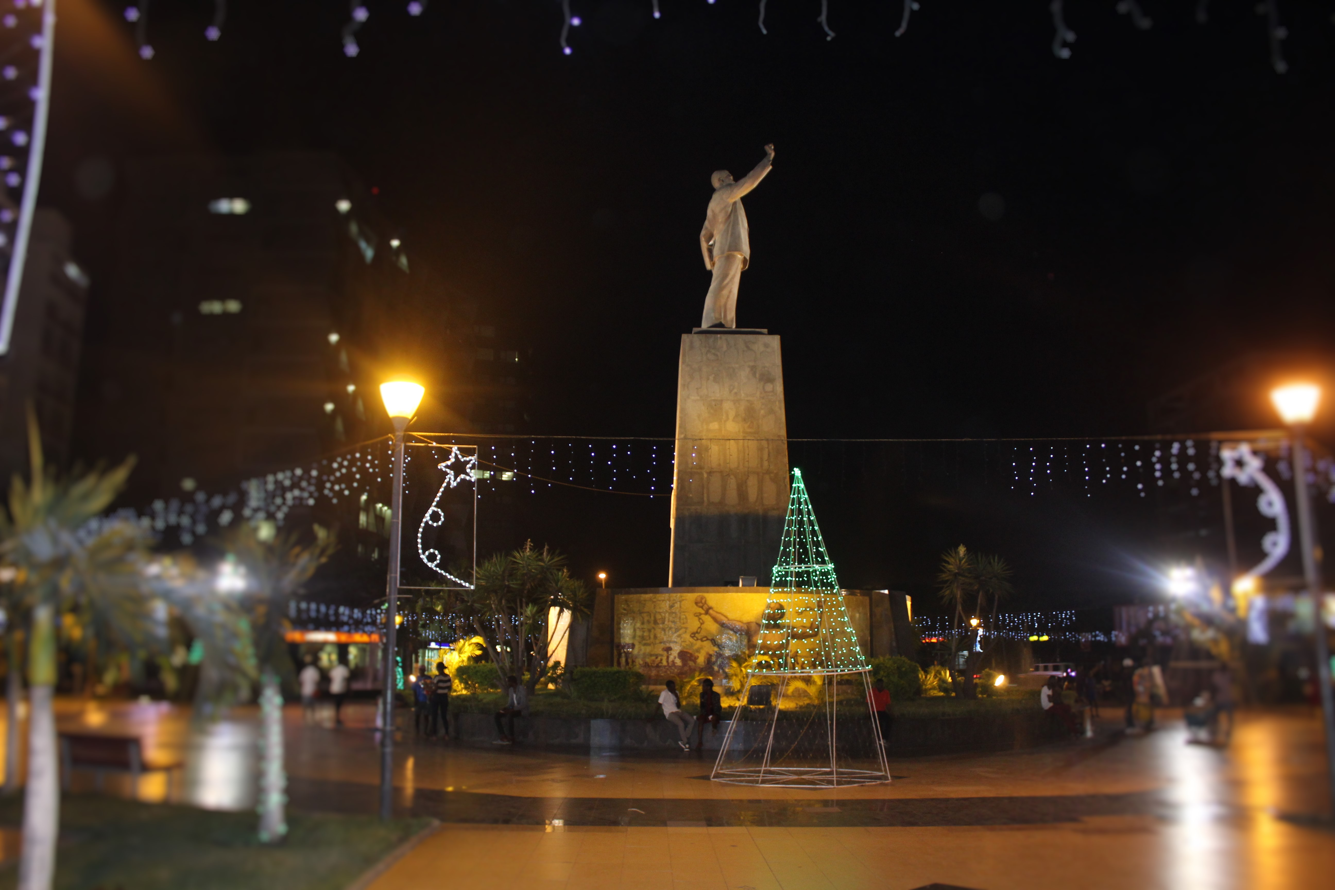 A drive in Luanda City This is an image with the theme "Africa on the Move or Transport" from: Angola